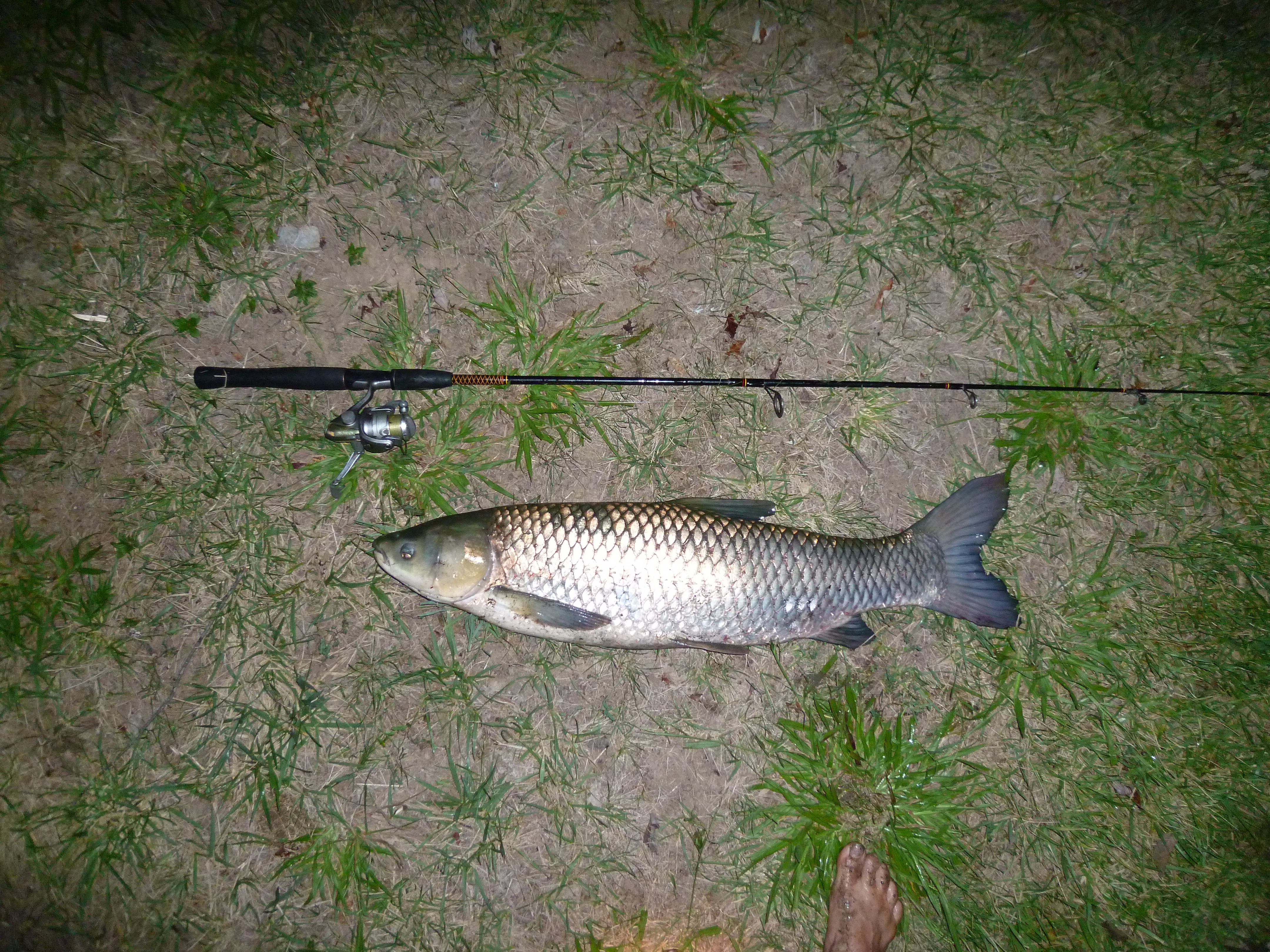 A grass carp caught with white bread on 6-pound line.